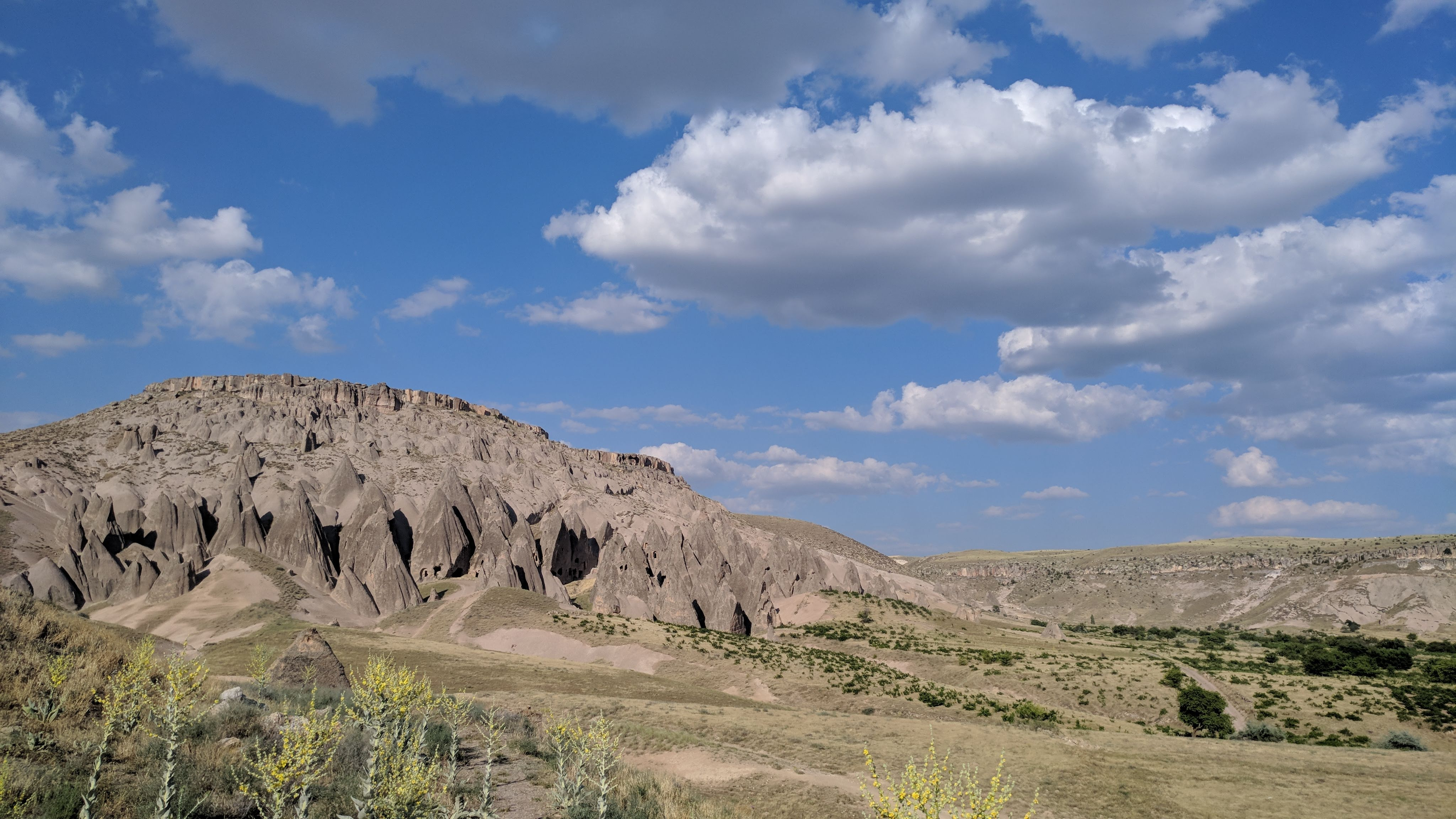 Fairy Chimneys are also present in some parts of Aksaray.